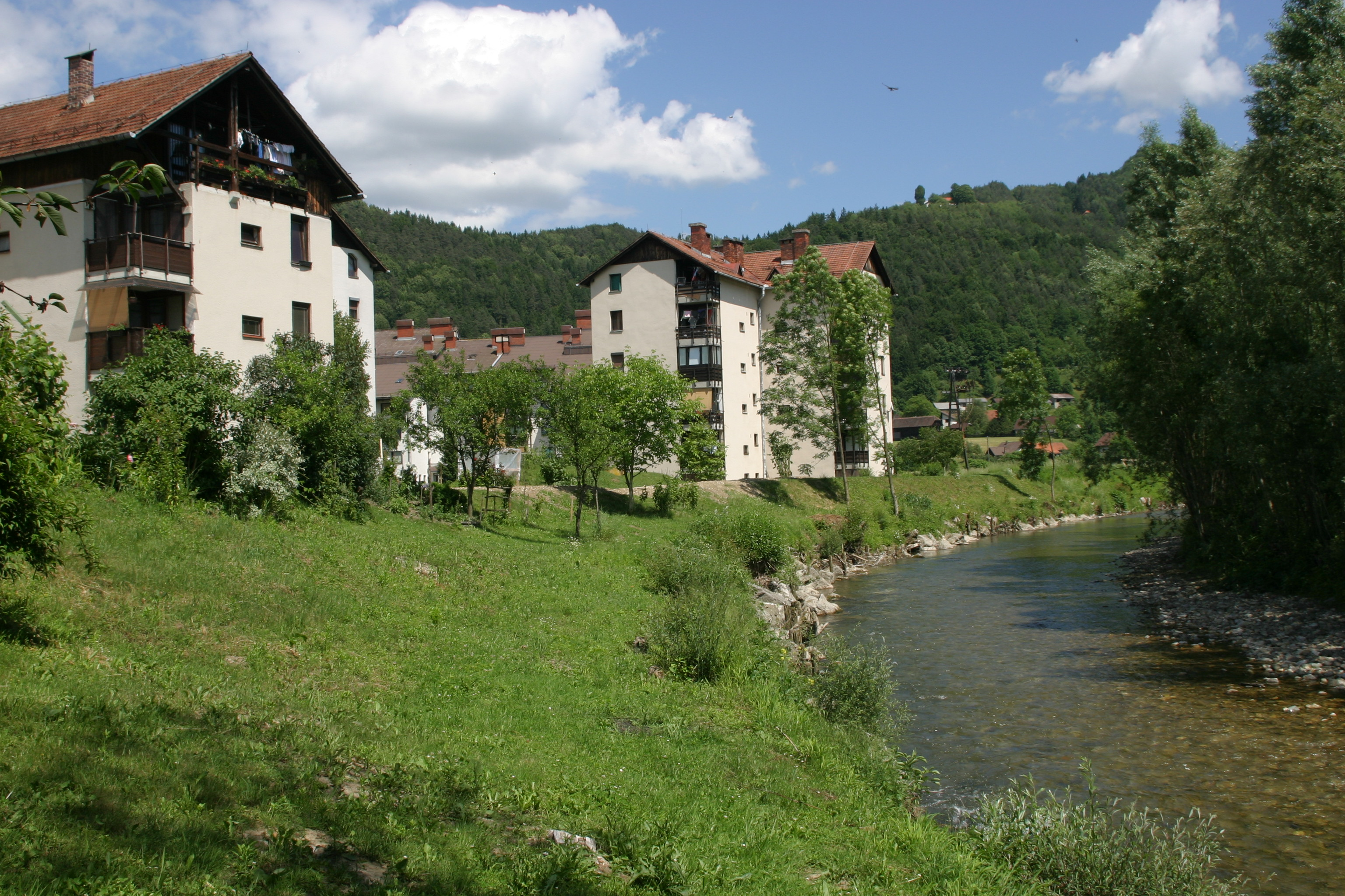 Regulated Dreta River in the town of Nazarje